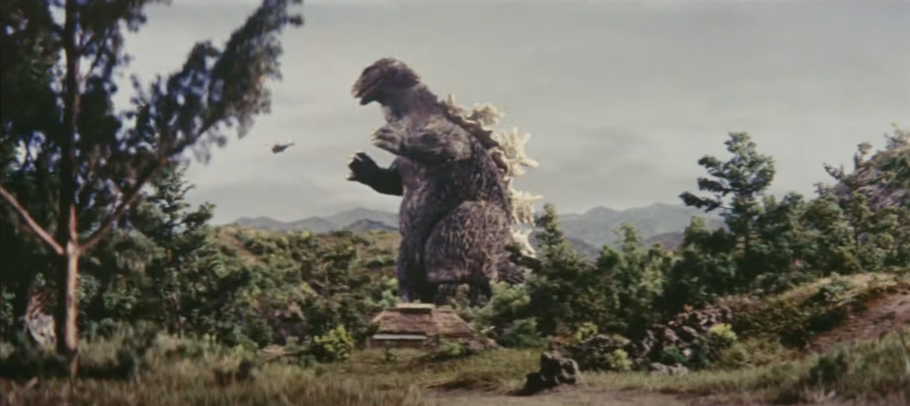 Scene from King Kong vs Godzilla.